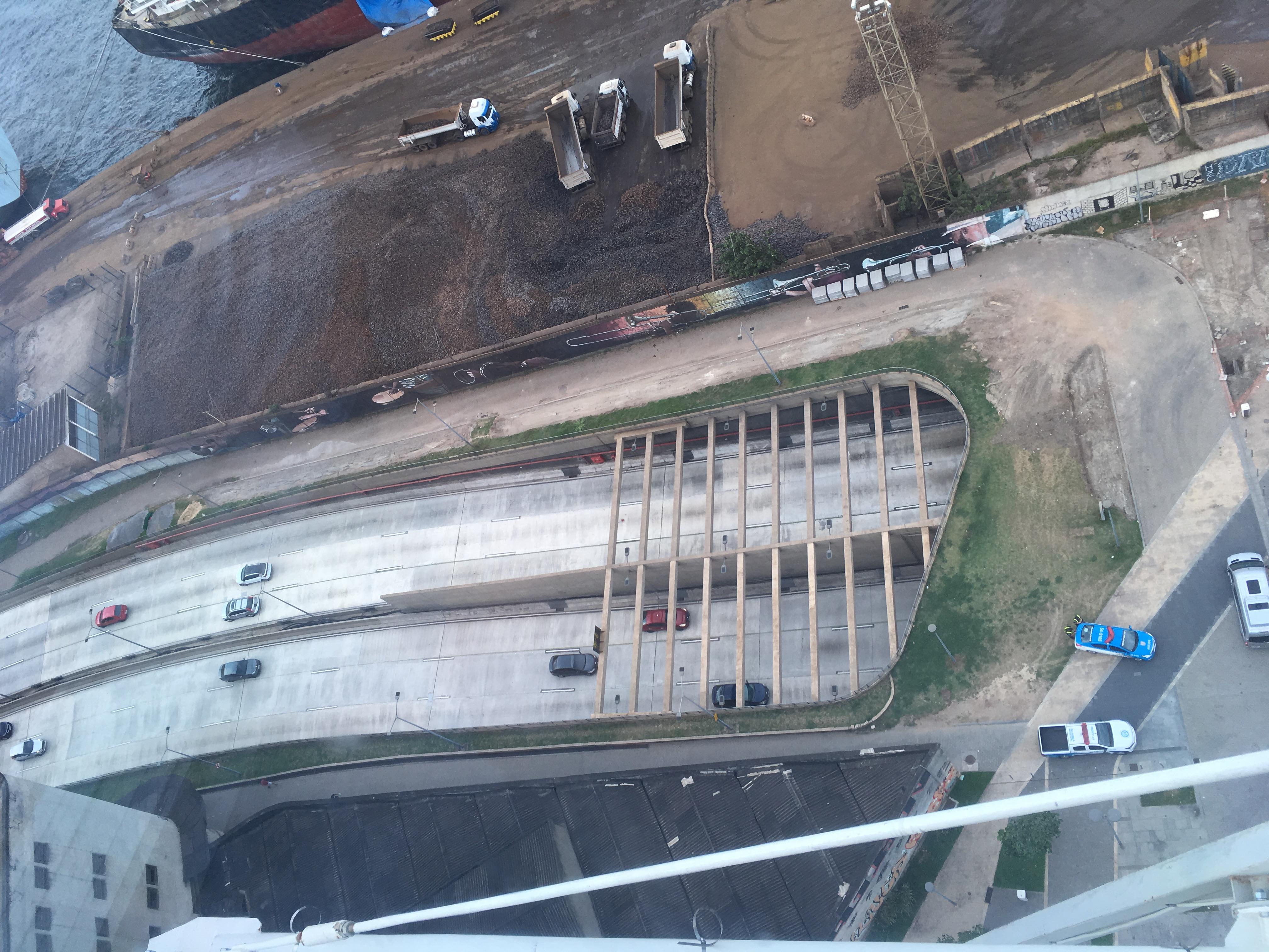 The view of access to the tunnel Mayor Marcello Alencar from ferris wheel Rio Star.